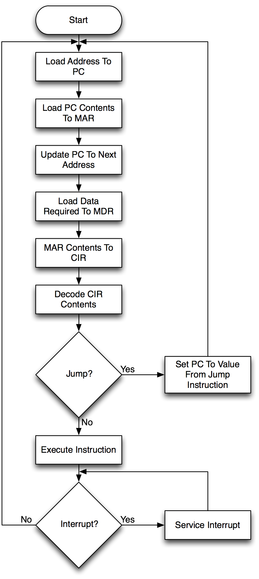 A flowchart diagram showing the steps of the Fetch Execute Cycle.